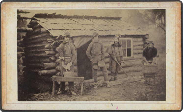 Soldiers of the First Texas Infantry, Confederate States Army, Dumfries, Virginia. Note: This carte de visite is probably a post-Civil War copy of an outdoor ambrotype scene at Wigfall Mess near Dumfries, Virginia. It is thought to be by Solomon Thomas Blessing, a soldier from Galveston in General John Bell Hood's Texas Brigade, of troops during the winter of 1861-1862. One of the soldiers is Private Joseph Nagle from Austin.